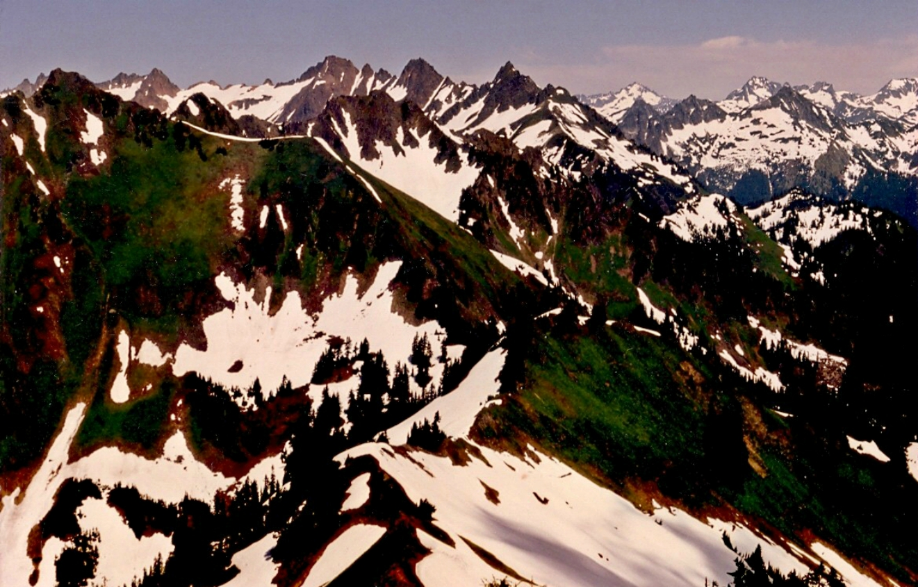 Green Mountain summit view of the North Cascades, Annotations on peaks.